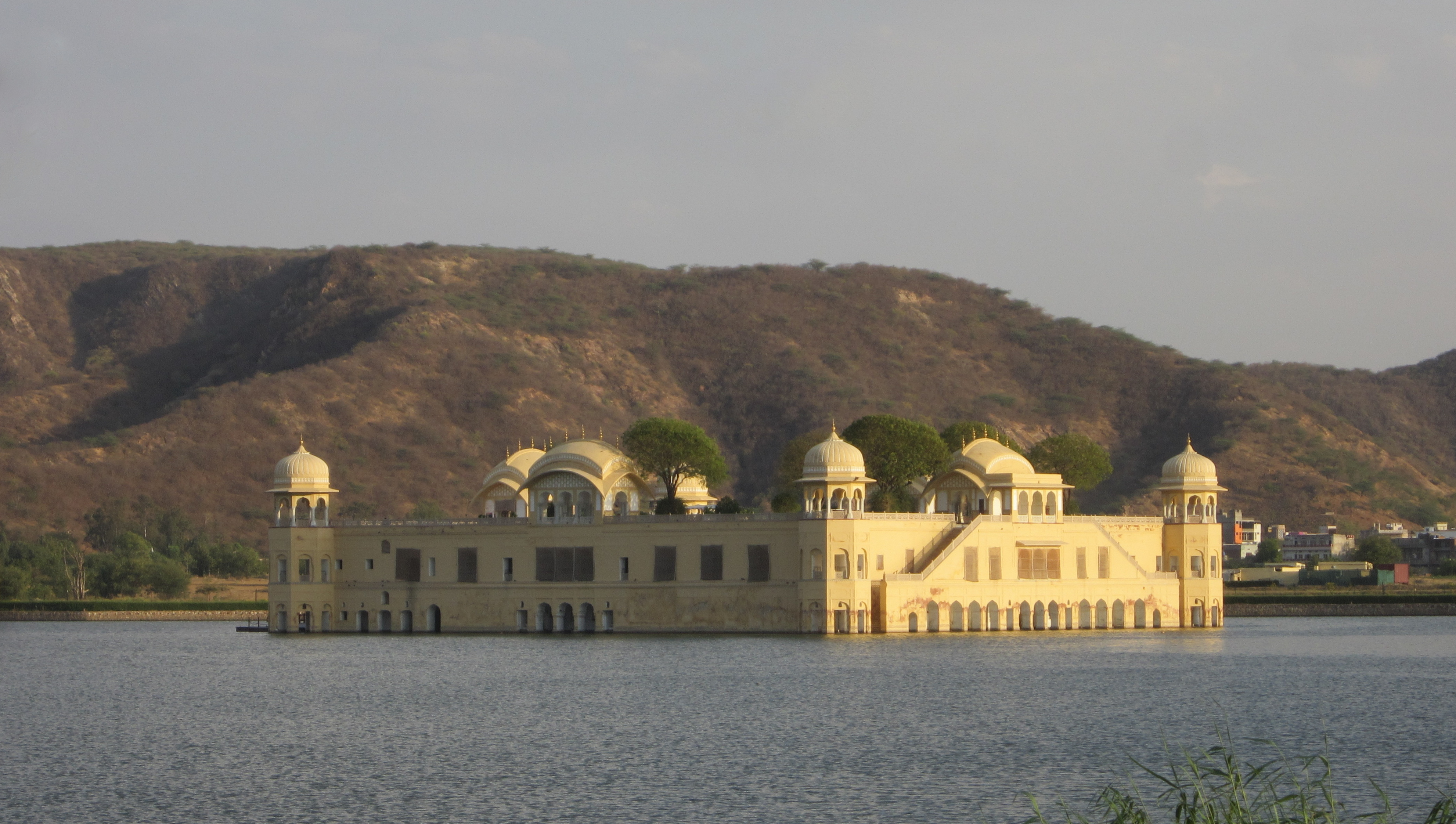 Jal Mahal (Palace of Water) in Jaipur, Rajasthan, India